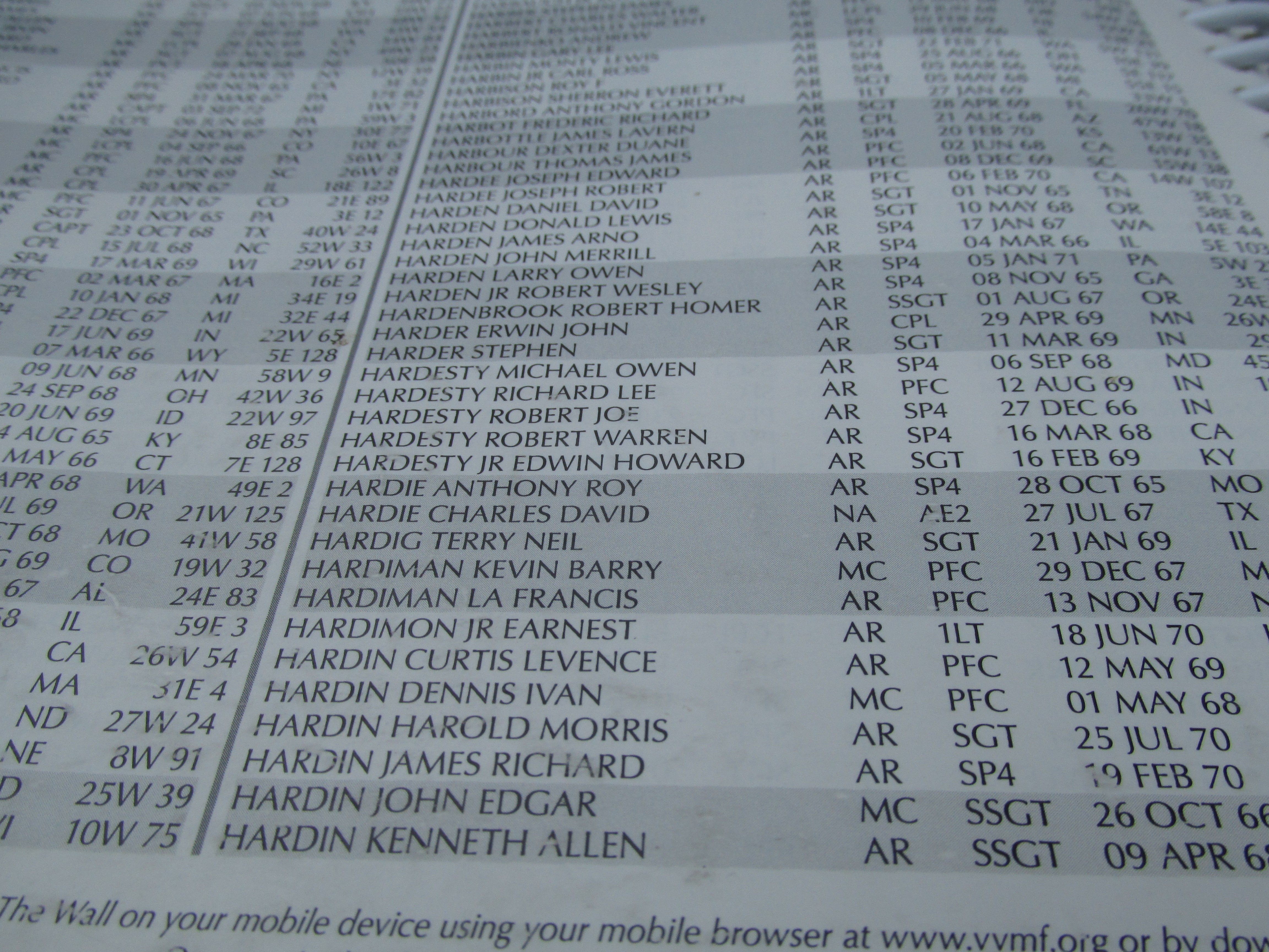 Finding aids for locating the engraved names on the Vietnam Veterans Memorial wall.